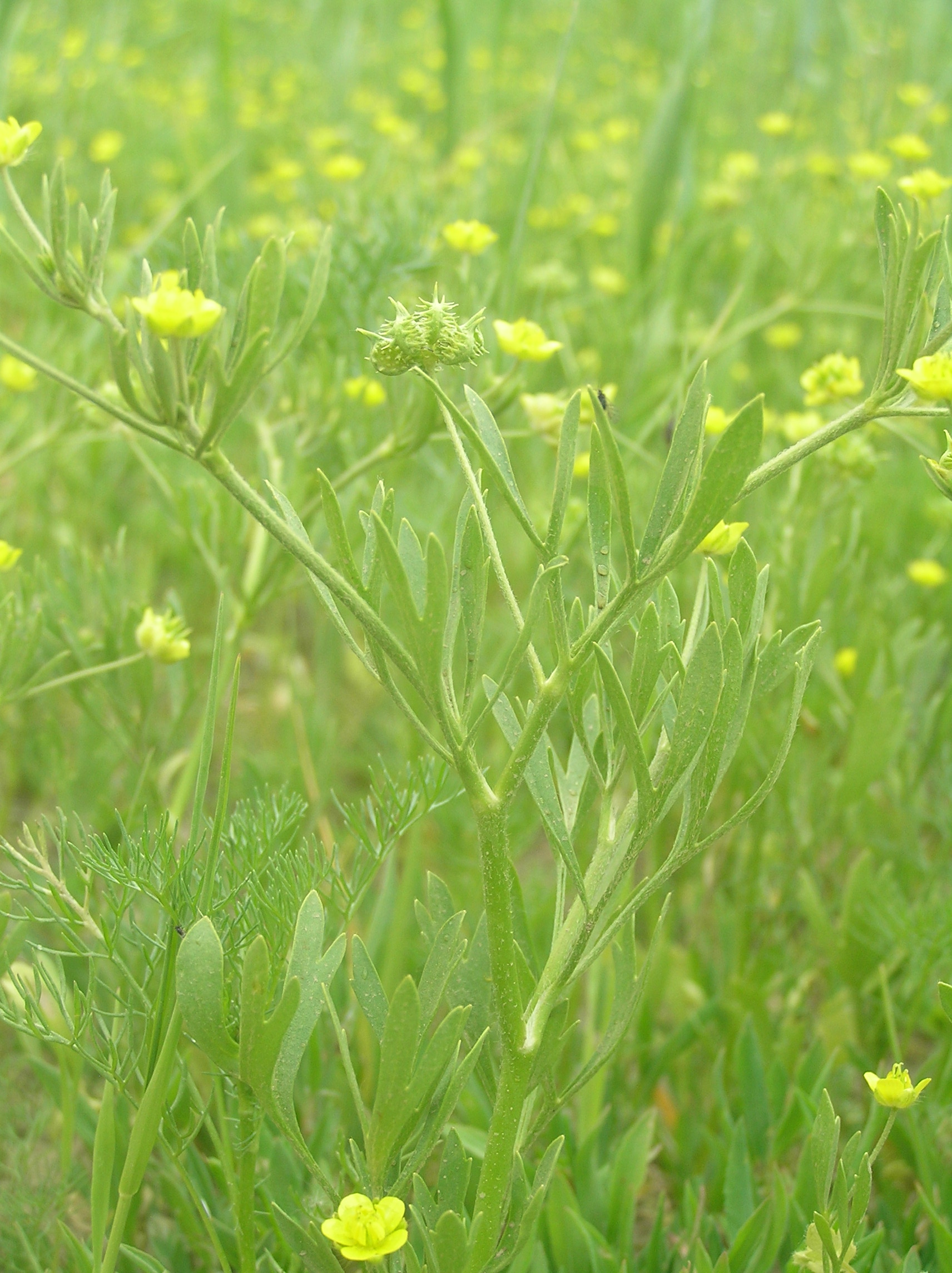 Ranunculus arvensis, Valašské Klobouky, Czech Republic